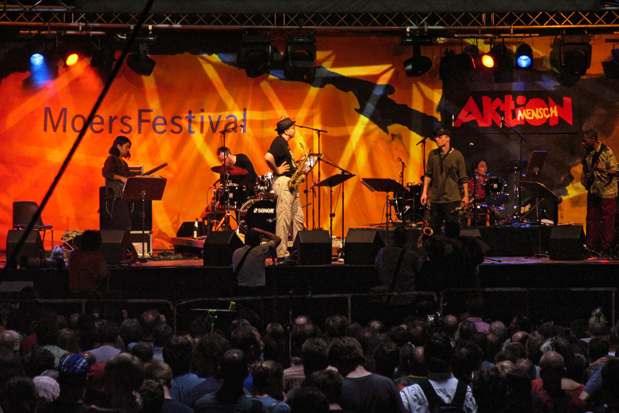 Ned Rothenberg Double Band on stage at moers festival 2004 own photo, may 30, 2004